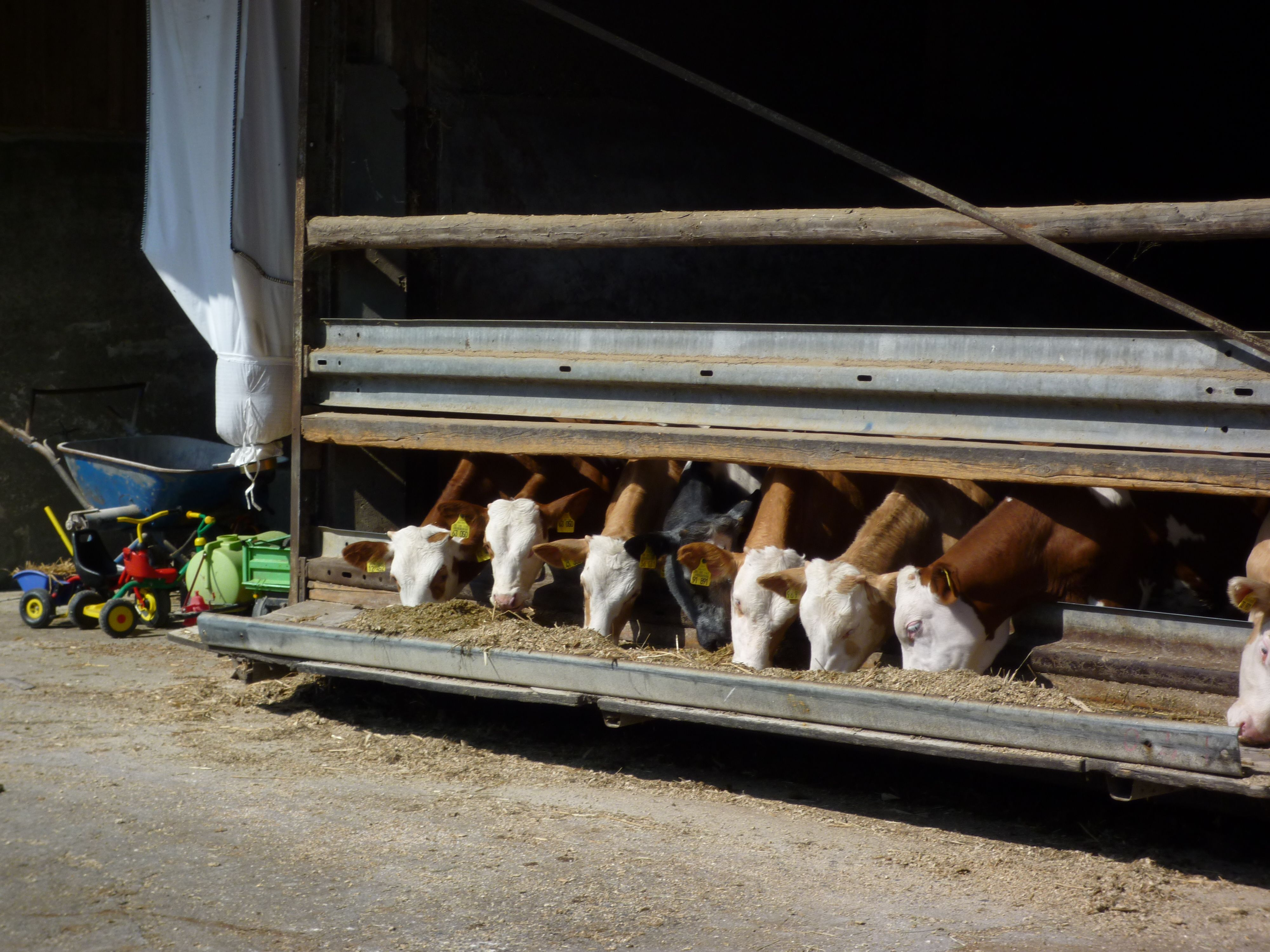 Winterstettenstadt - Barncattle at feeding